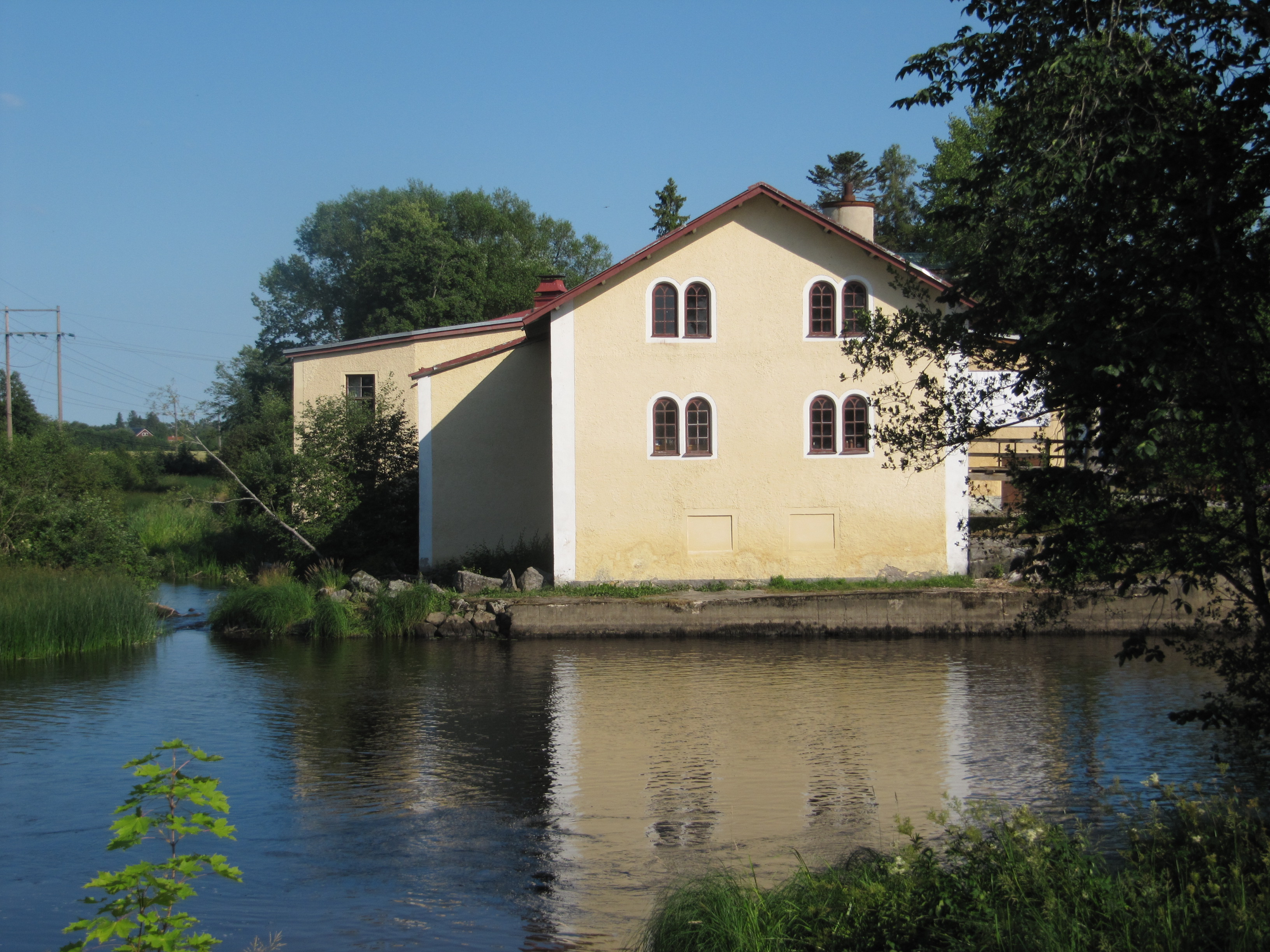 The village Lindbacka outside Örebro, Sweden